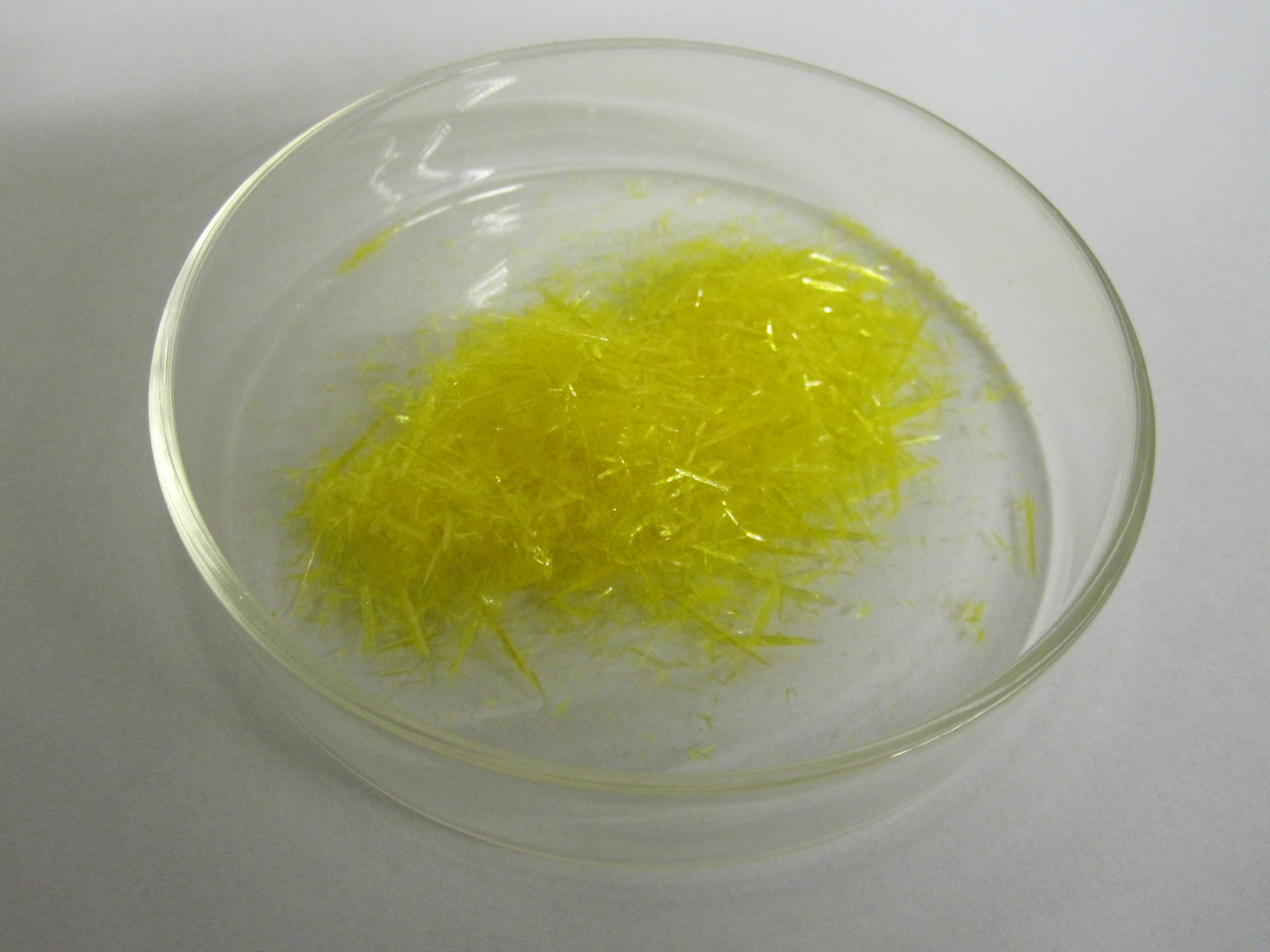 Needles of freshly sublimated para-benzoquinone.